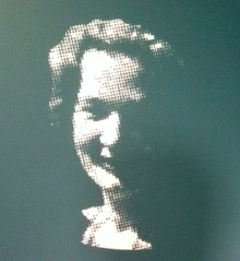 Henriette Bie Lorentzen